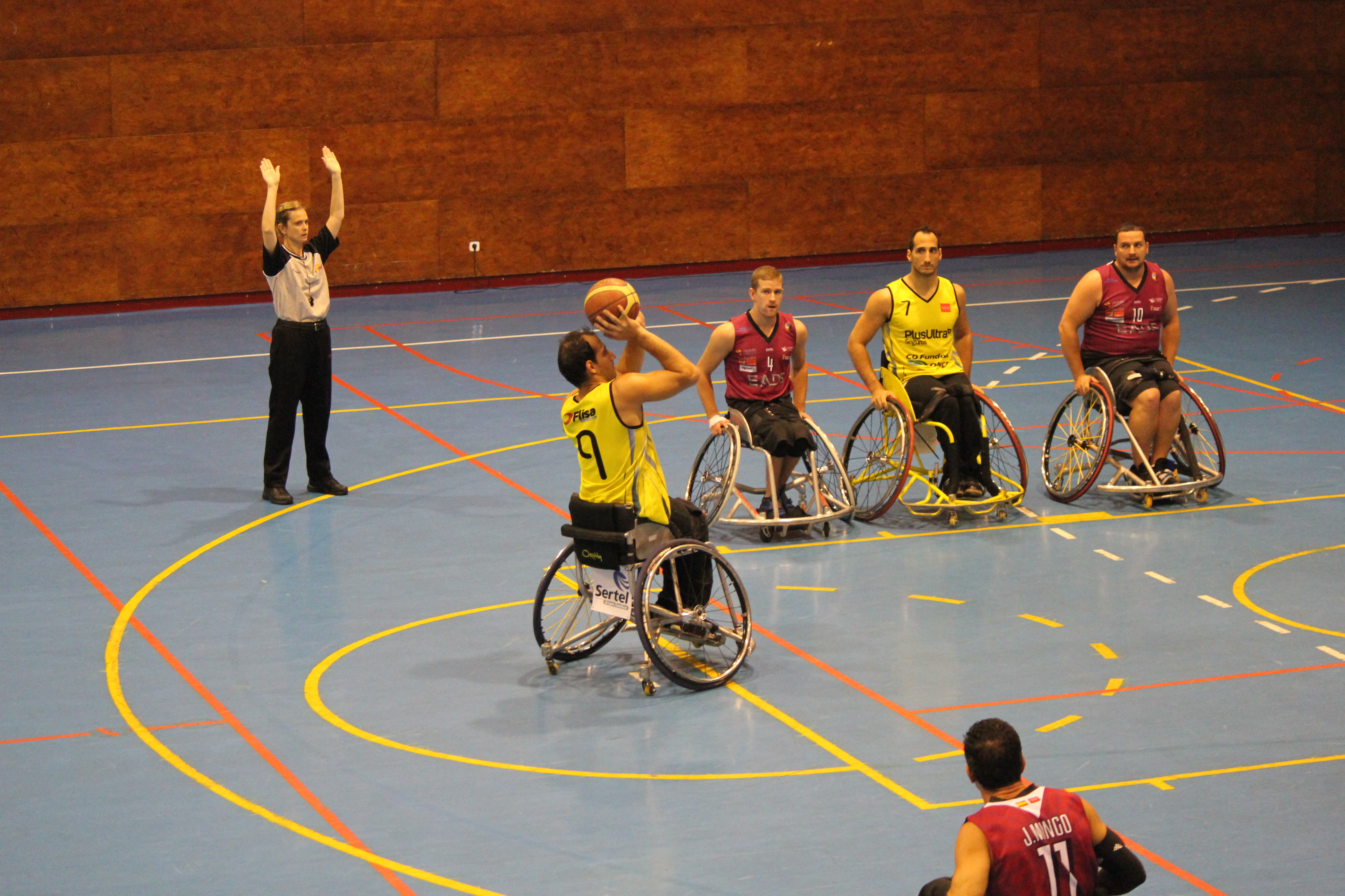 ONCE v Getafe, Madrid, November 9, 2013